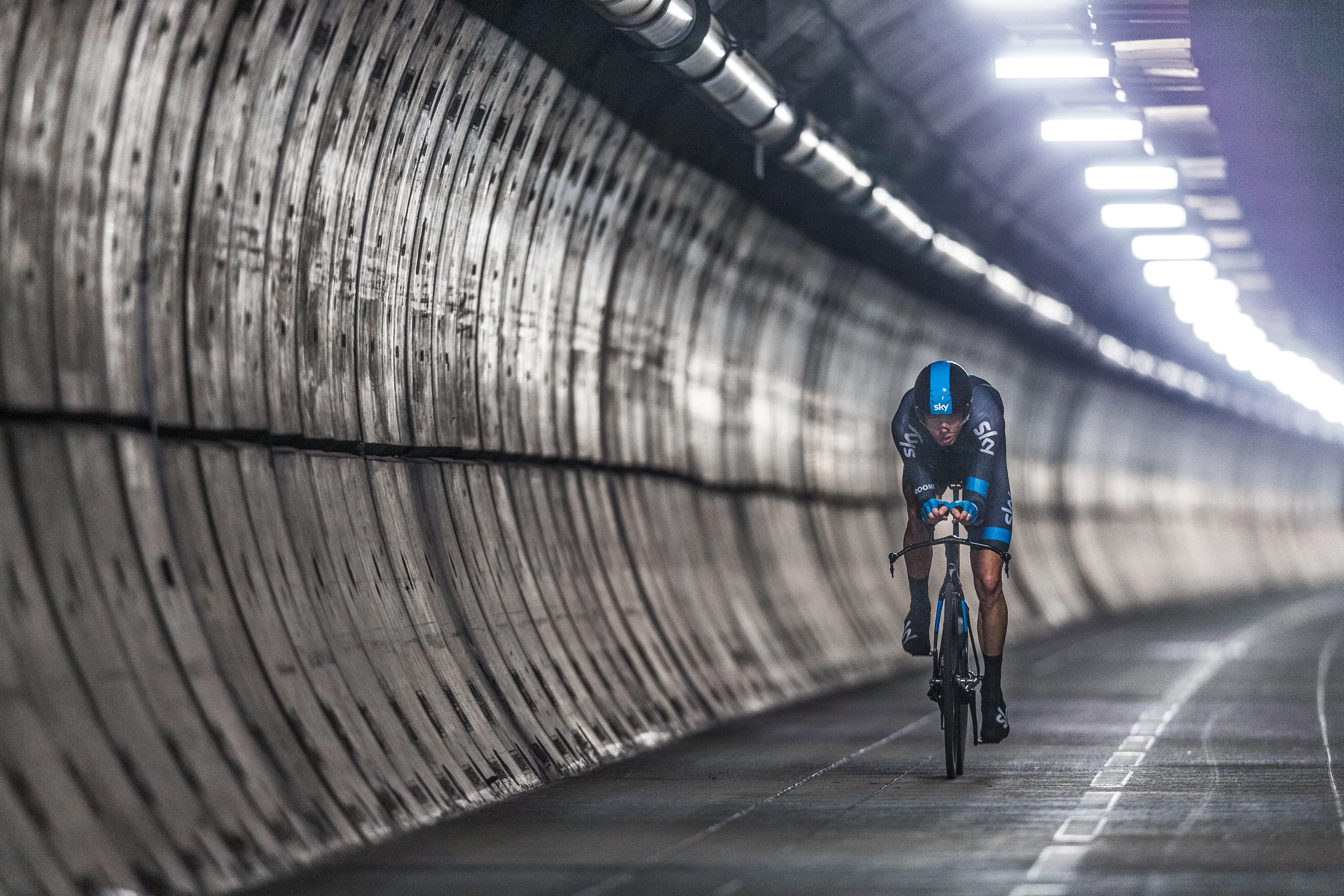 Team Sky rider and Tour de France Winner Chris Froome crosses the English Channel by bicycle, using the Eurotunnel service tunnel and support by Jaguar Cars. As the world’s leading professional cyclists depart the UK after three days of enthralling Tour de France action, Jaguar has released a short film titled “Team Sky – Cycling Under The Sea,” which documents the Team Sky leader riding from the Eurotunnel Terminal in Folkestone on England’s south-east coast, to Calais in France